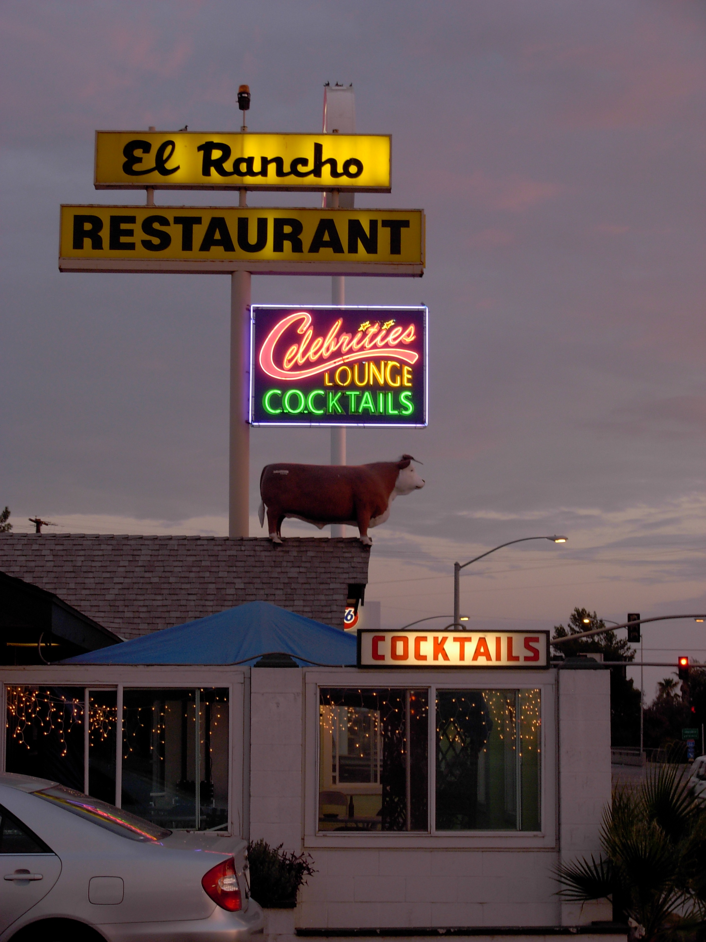 Verily, Beaumont, California knows how to party.